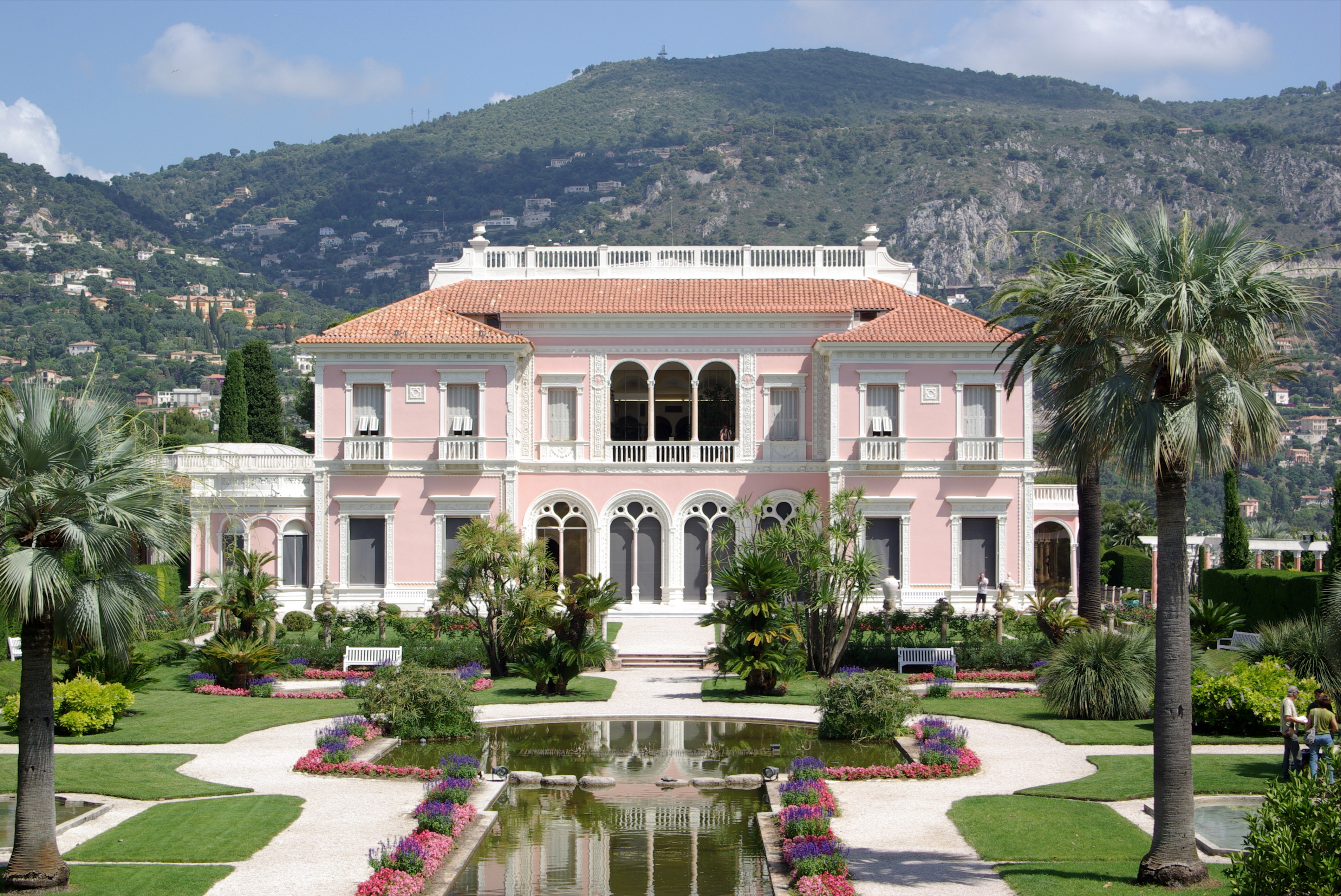 The Villa Ephrussi de Rothschild, on the French Riviera in Saint-Jean-Cap-Ferrat (Alpes-Maritimes, Provence-Alpes-Côte d’Azur, France).